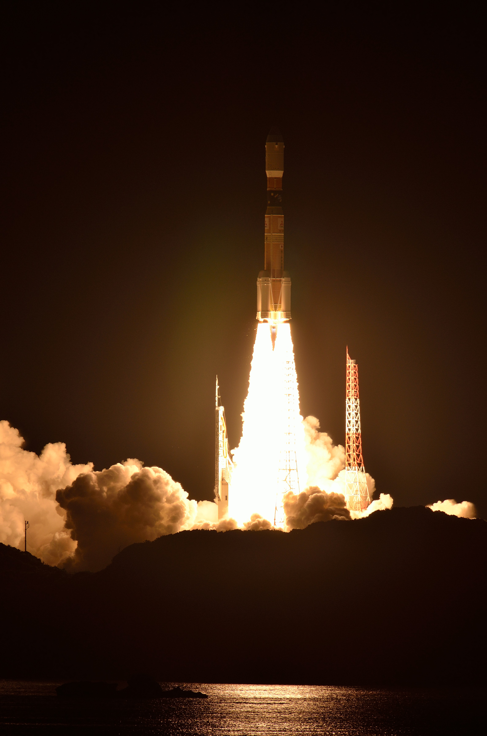 H-IIB Launch Vehicle Flight 4, launching the H-II Transfer Vehicle "KOUNOTORI 4" (HTV4).